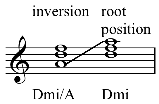 Determining chord root from inversion. "Revoicing inverted triads to root position".